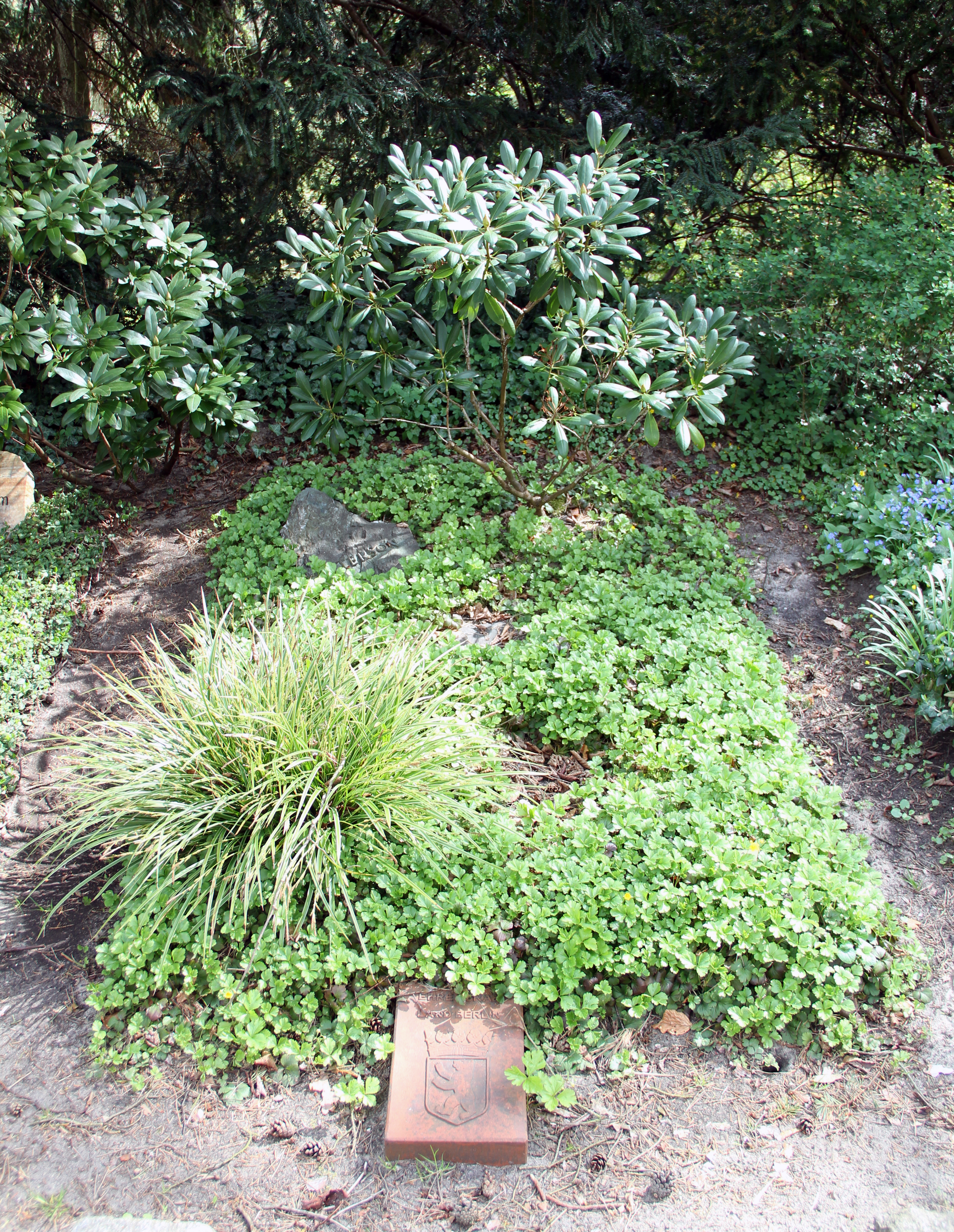 Grave of honor, Heinz Otterson, Trakehner Allee 1, Berlin-Westend, Germany